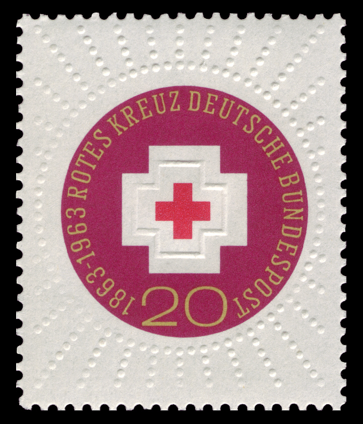 100 years of International Red Cross Graphics by Bentele Ausgabepreis: 20 Pfennig First Day of Issue / Erstausgabetag: 24. Mai 1963 Michel-Katalog-Nr: 400